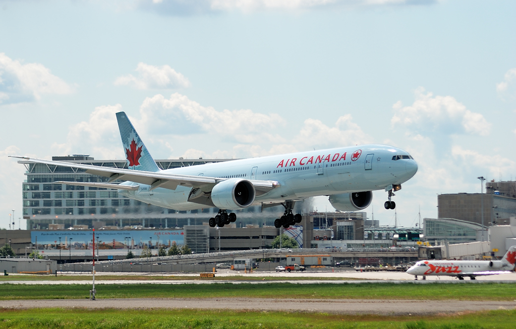 Air Canada Boeing 777-333ER landing at Montréal-Pierre Elliott Trudeau International Airport (YUL) in July 2009.